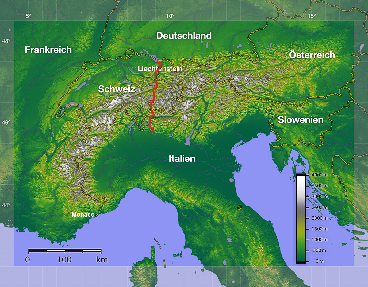 Map of the Alps with west east border